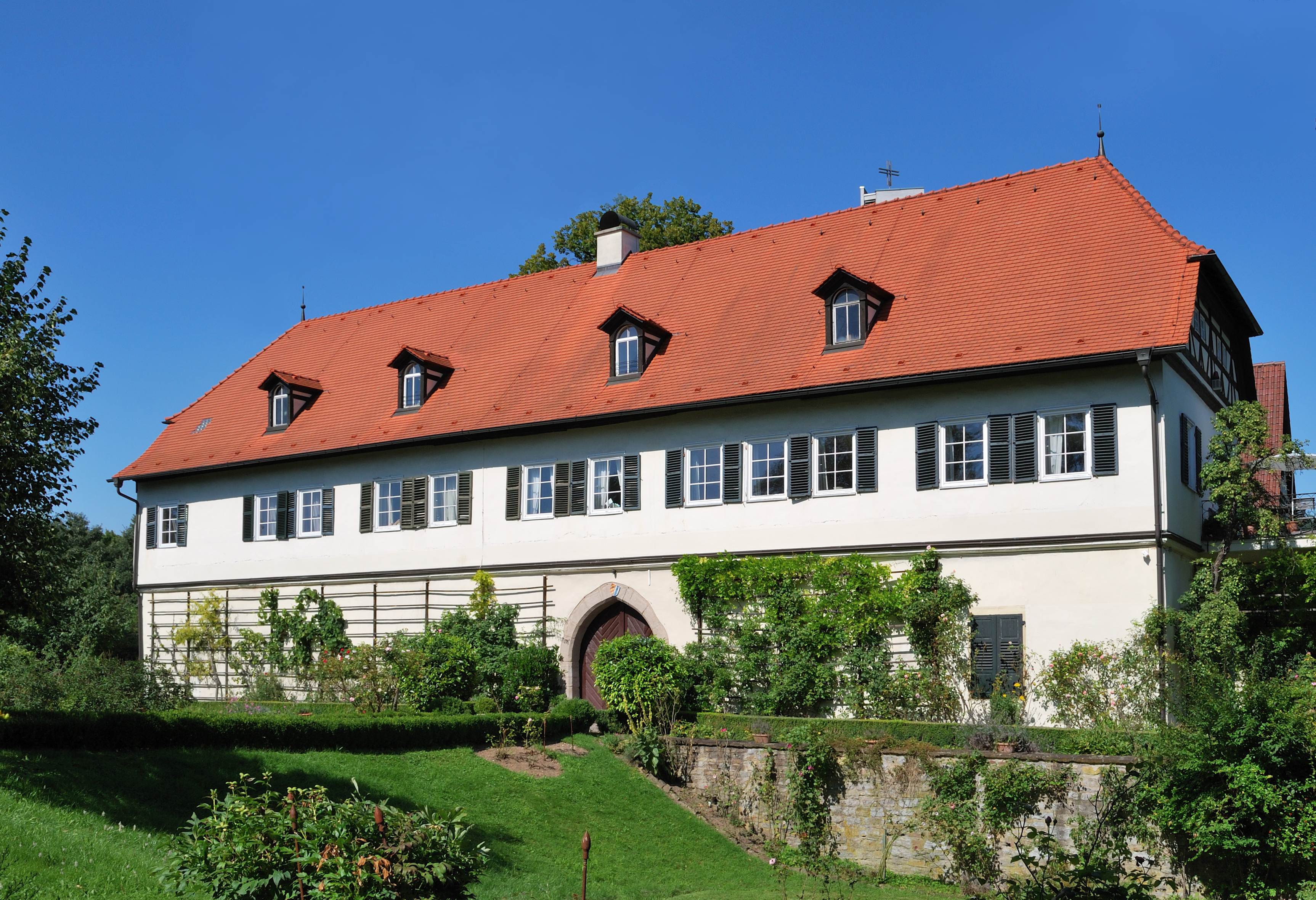 Ditzingen castle, moated castle from the 15./16. century with later modifications. The moat was filled until app. 1880.